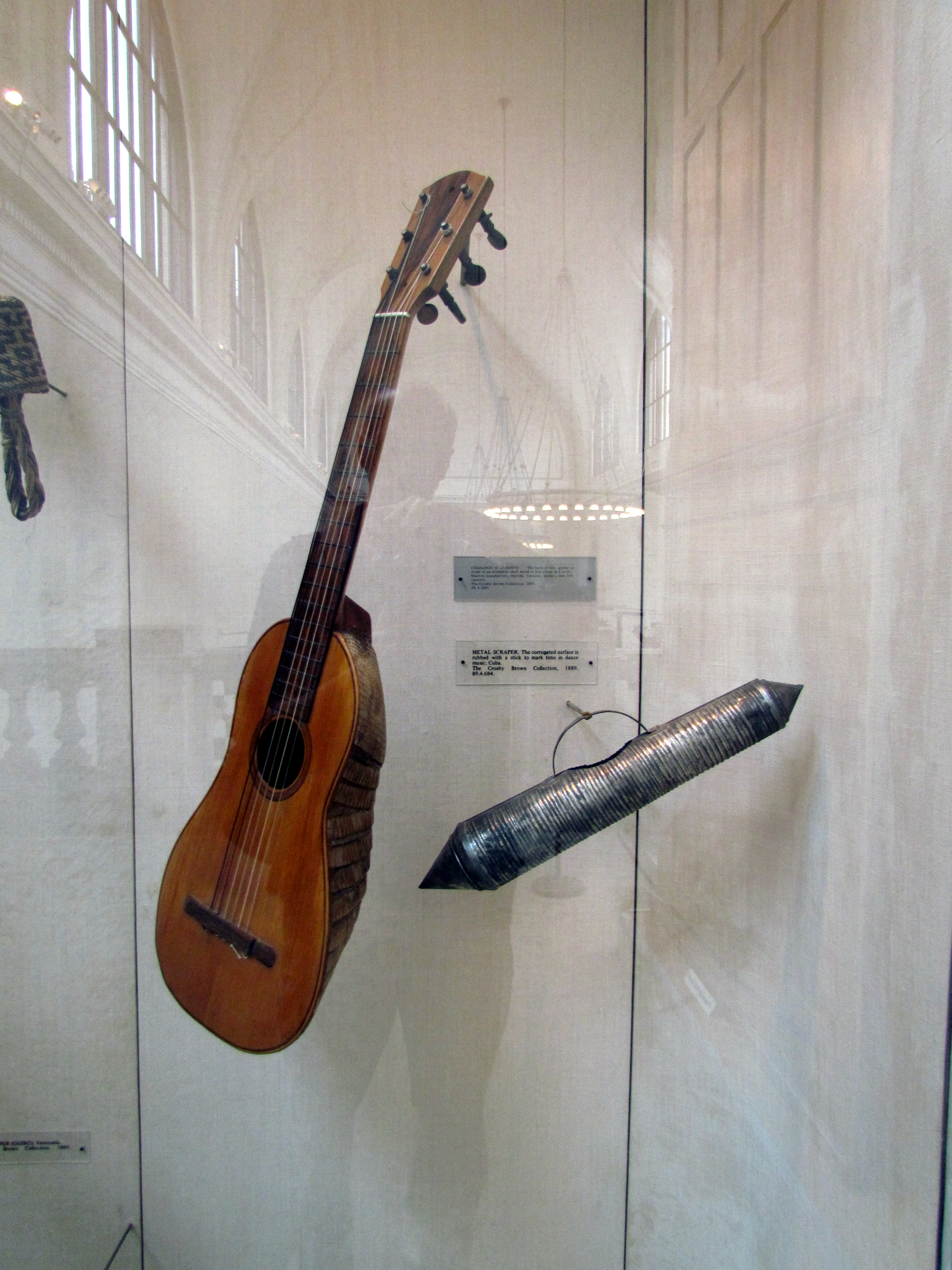 Charango (Mexico) and Metal Scraper (Cuba) CHARANGO or JAMANITA. the back of this guitar is made of an armadillo shell dried to the shape in a mold Marcos Manufactory, Mérida, Yucatán, Mexico, late 19th century. The Crosby Brown Collection, 1889 89.4.2881. METAL SCRAPER. The corrugated surfaces is rubbed with a stick to mark time in dance music. Cuba. The Crosby Brown Collection, 1889. 89.4.684.